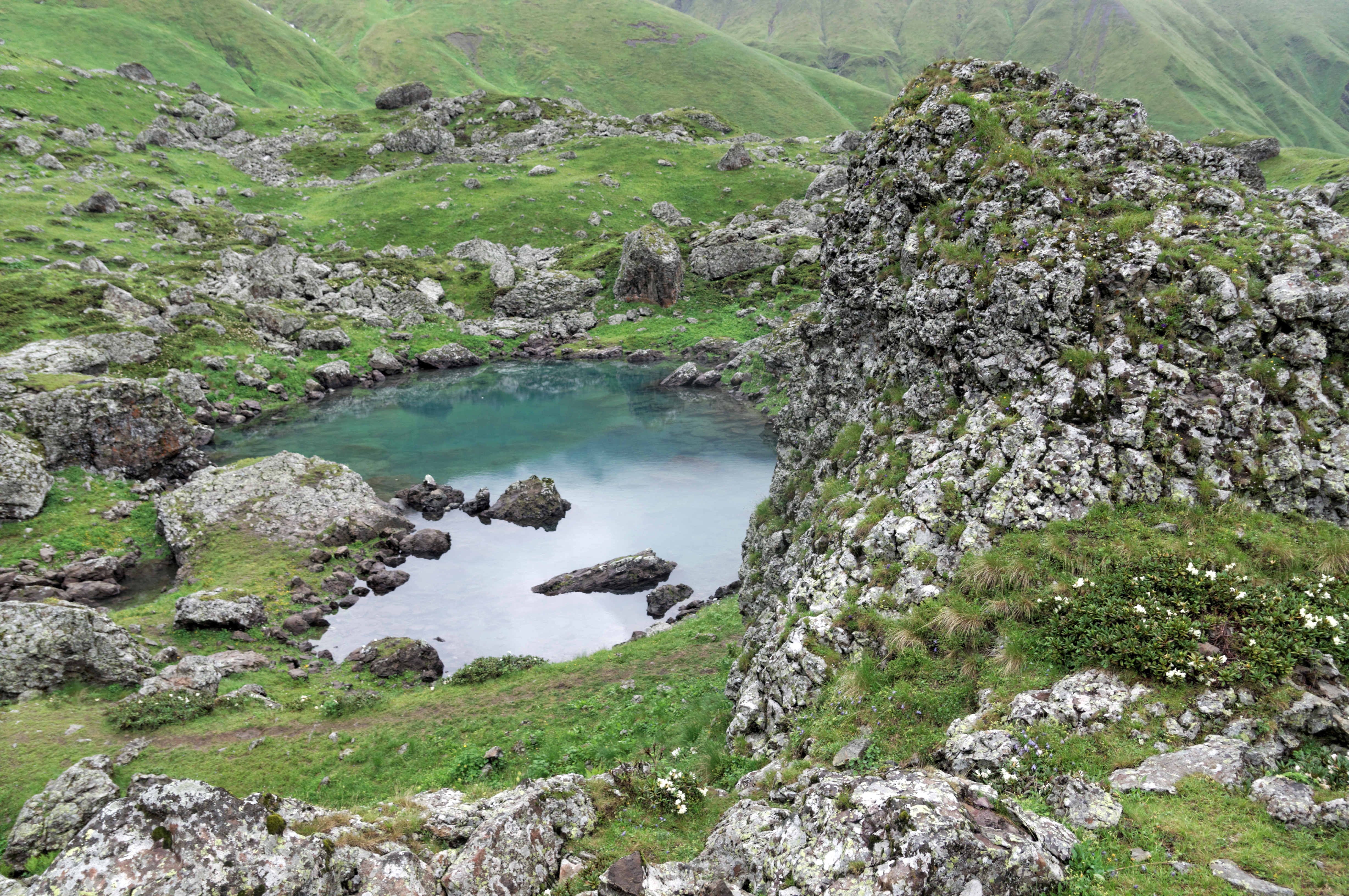 Abudelauri colorful glacier lakes under Chaukhi pass.